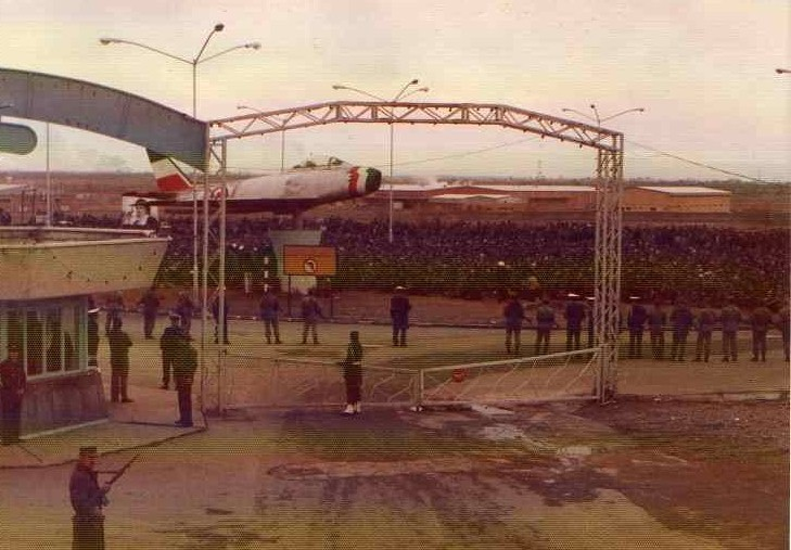 Protests of people from Tabriz in front of TAB2 during Iranian revolution of 1979.